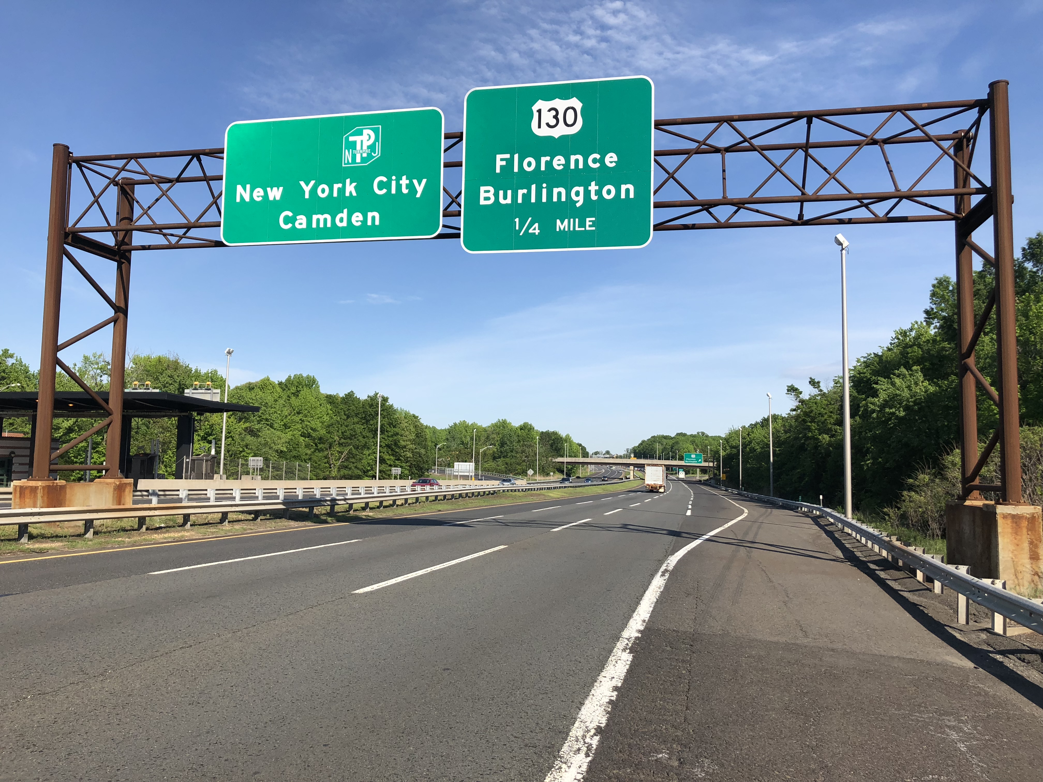 View north along Interstate 95 (New Jersey Turnpike Pennsylvania Extension) just south of the exit for U.S. Route 130 (Florence, Burlington) in Florence Township, Burlington County, New Jersey